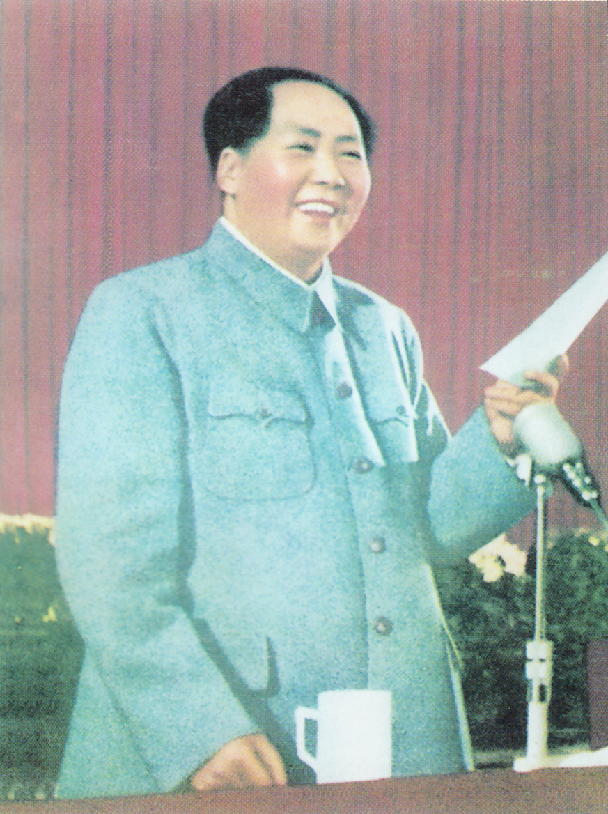 Photo of Mao Zedong making a speech, from Quotations from Chairman Mao Tse-Tung